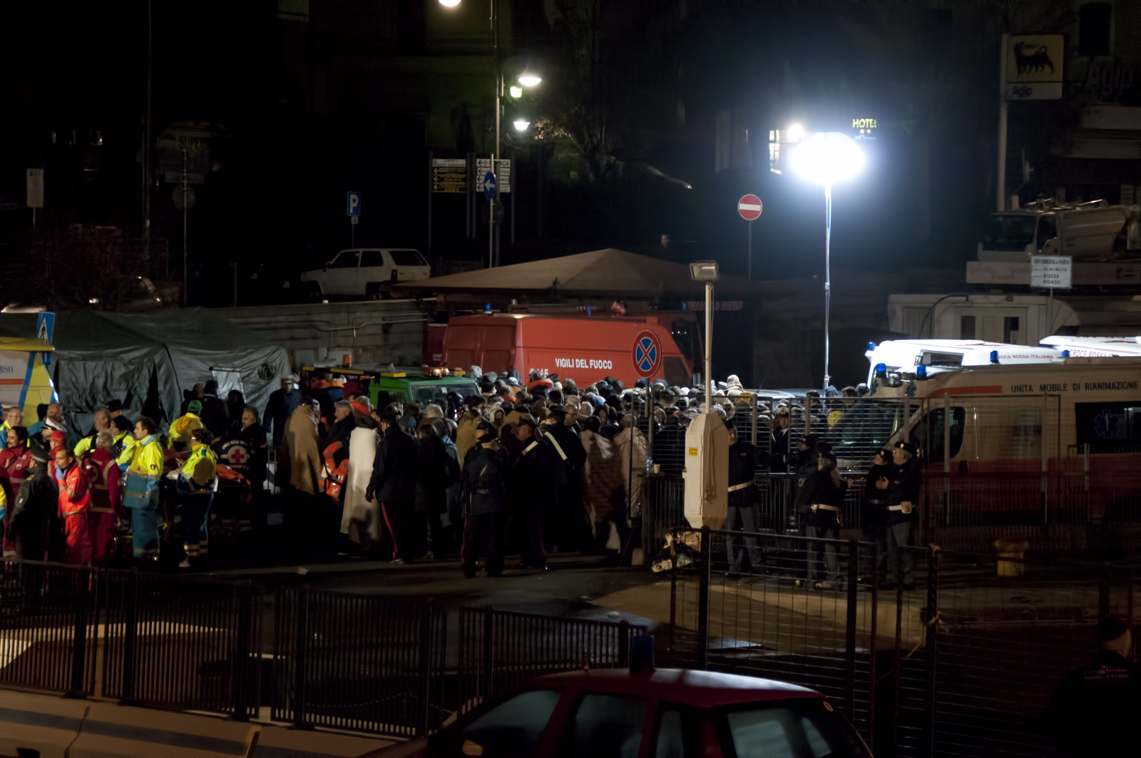 Collision of Costa Concordia